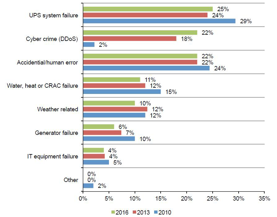 Root causes of unplanned outages